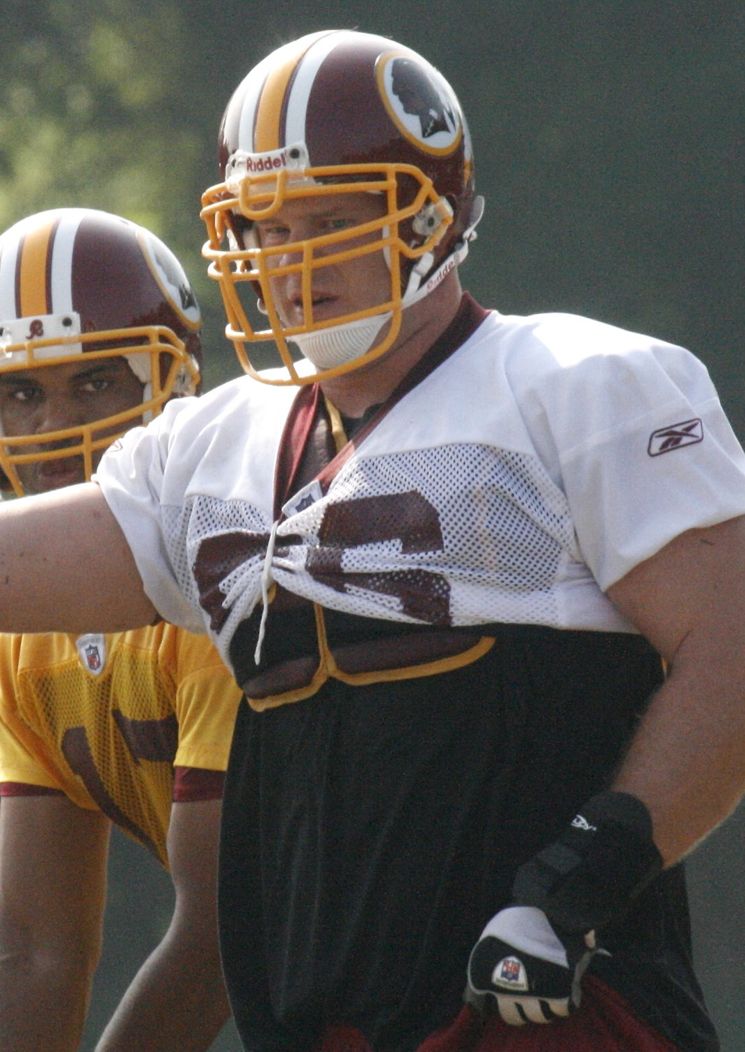 A picture of Washington Redskins OG Pete Kendall during training camp